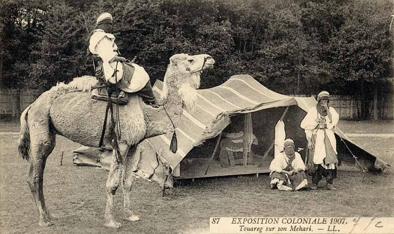 Postcard of a Tuareg displayed with his camel in the 1907 Colonial Exhibition.